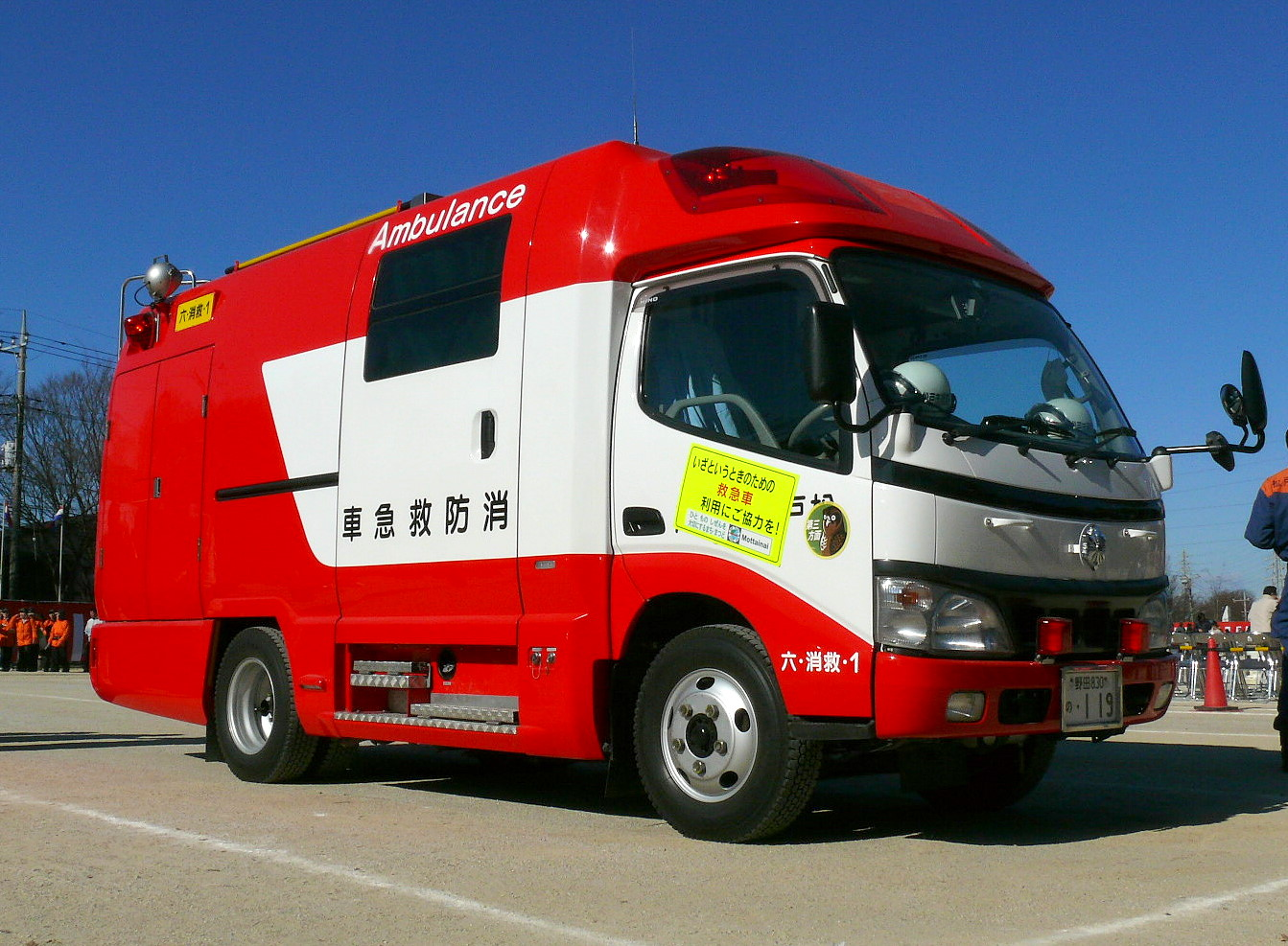 Matsudo Fire Department Fighting Ambulance. (Japan, Ciba Prefecture).